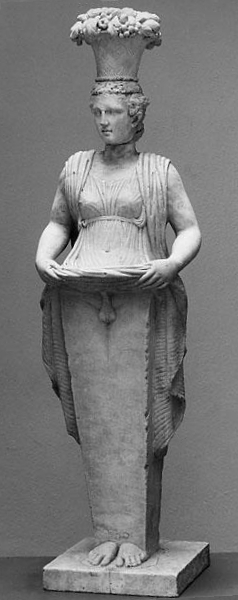 Hermaphroditos statue (herm), Greece. Nationalmuseum, Stockholm.